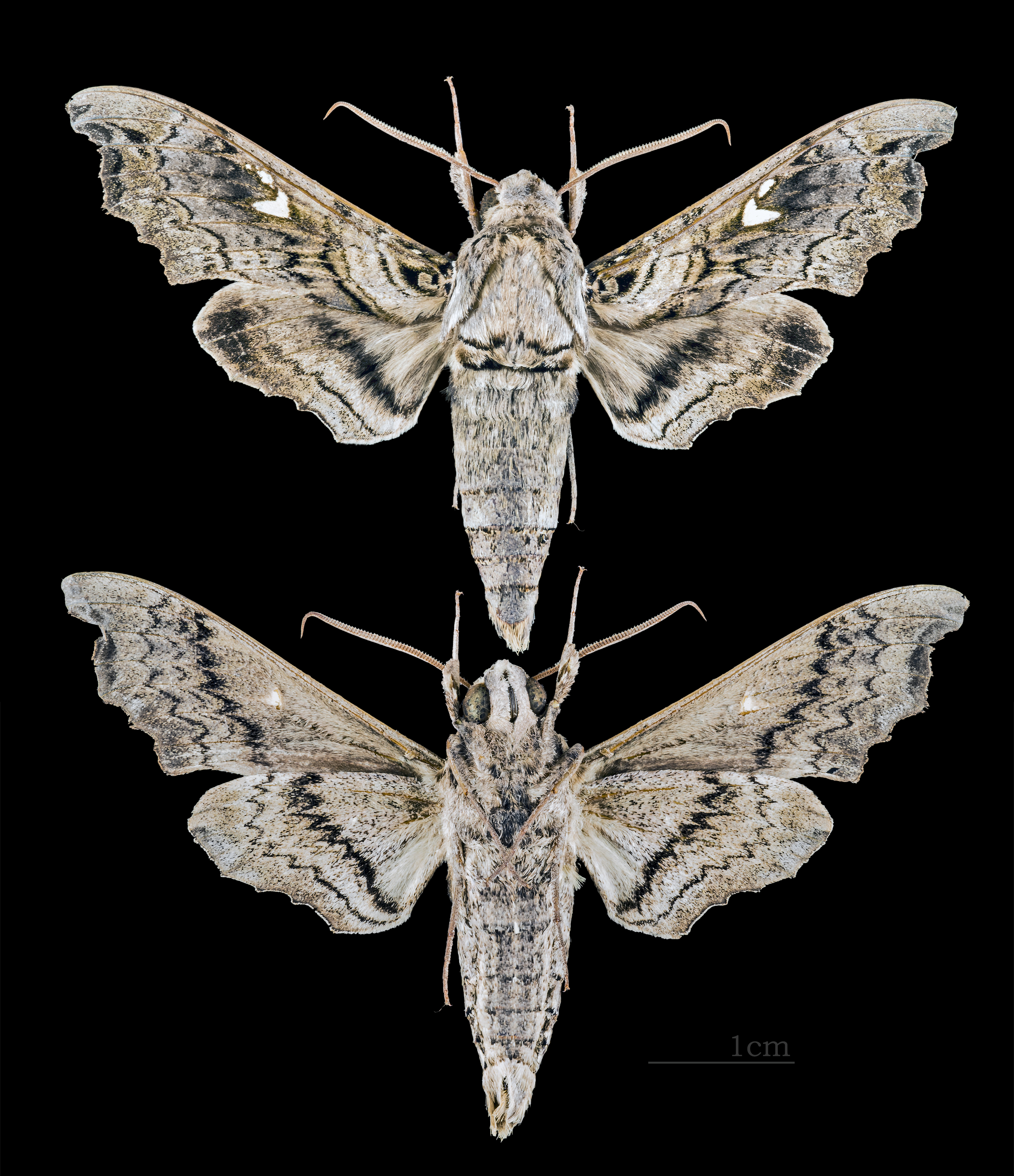 false-windowed sphinx - Two views of same specimen Collection of the Mathematician Laurent Schwartz